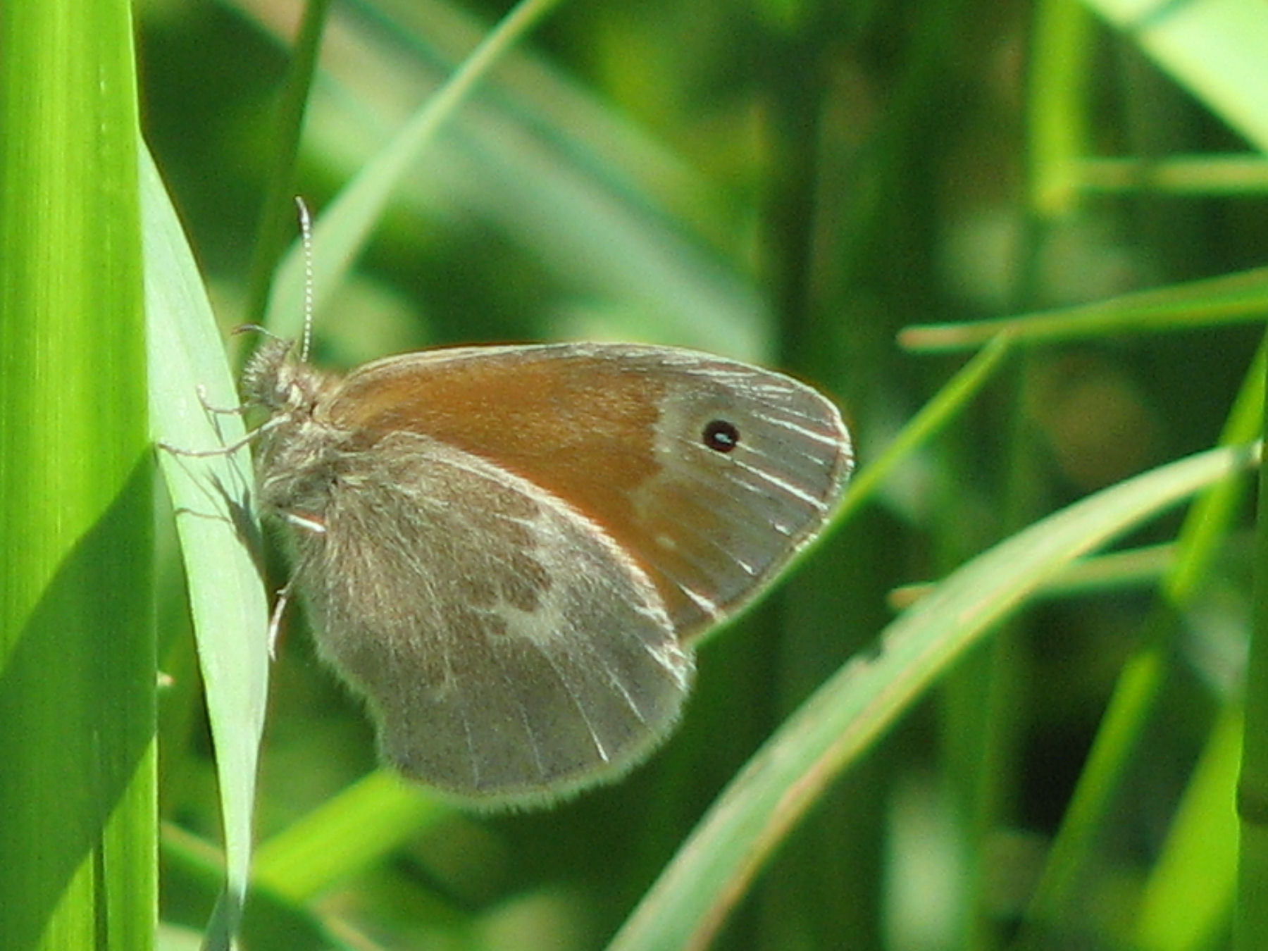 Common Ringlet (Coenonympha tullia) taken in Ottawa, Canada